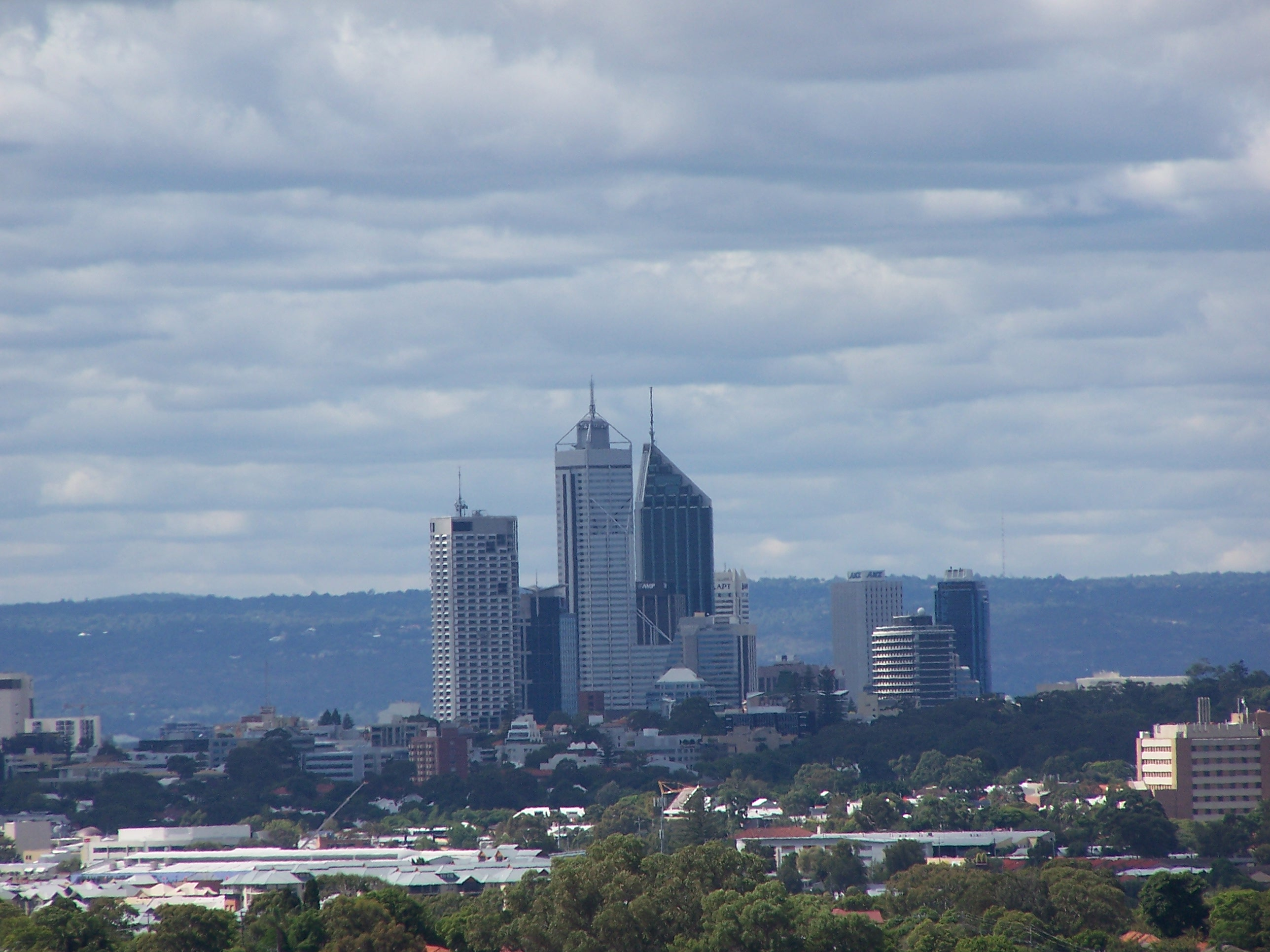 The central City area of Perth Western AUstralia, taken from Reabold hill, Bold Park.